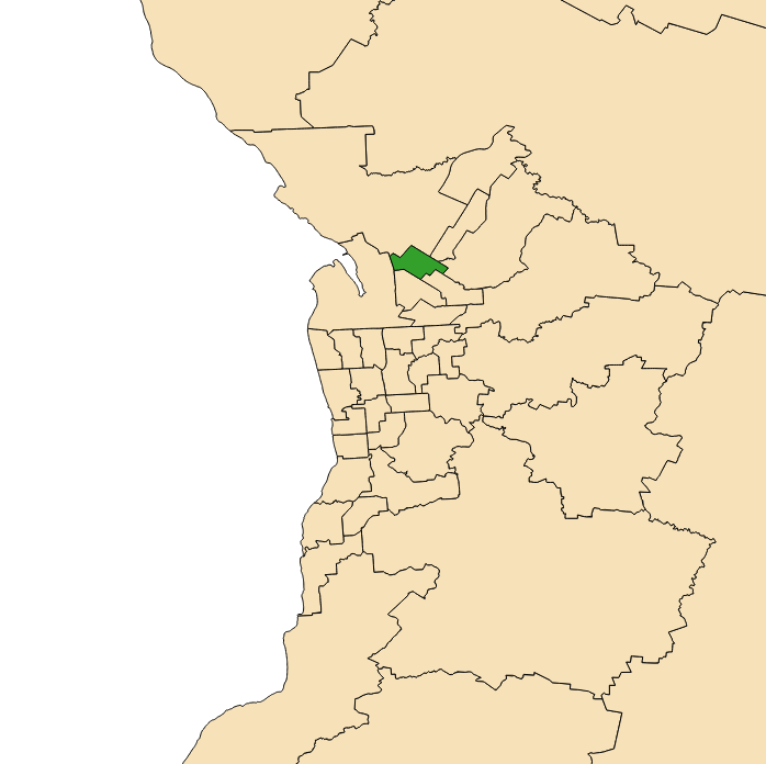 Electoral district 2018 boundaries shown in green